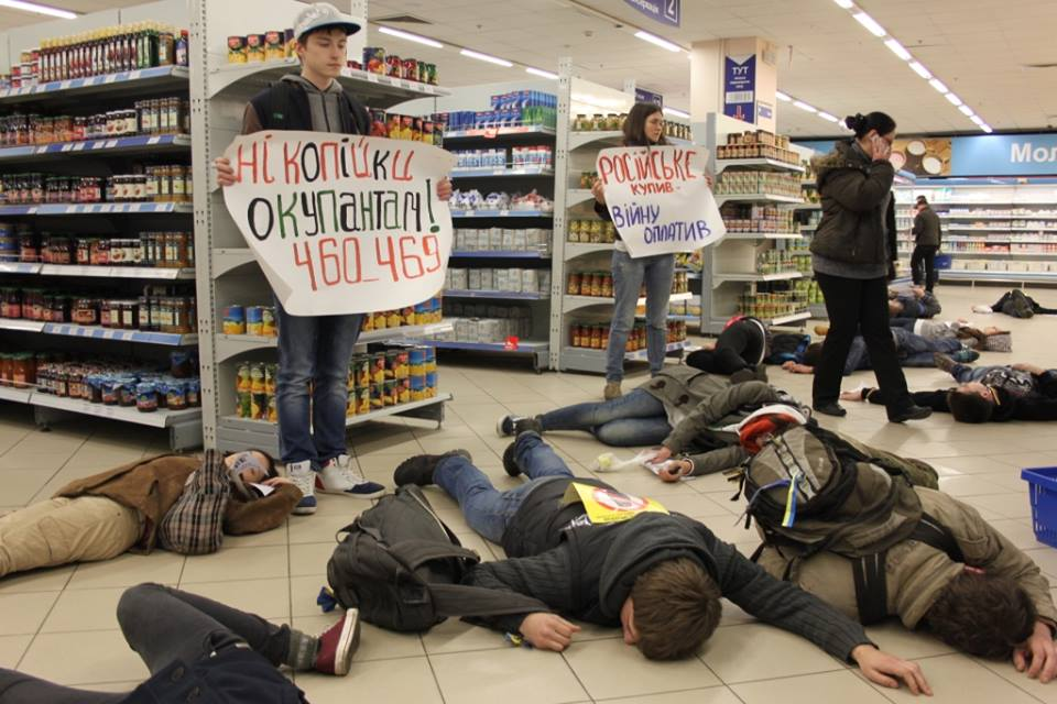 Flash mob in supermarket in Kiev, campaign "Do not buy Russian goods!" Picture made by activist of "Vidsich".